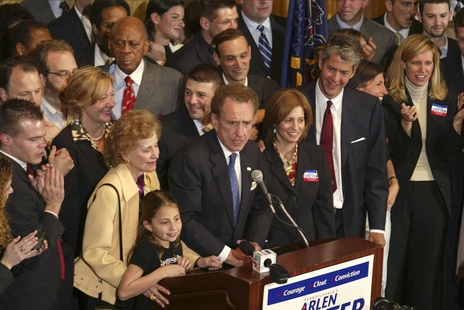 Senator Arlen Specter (R-PA) campaigning